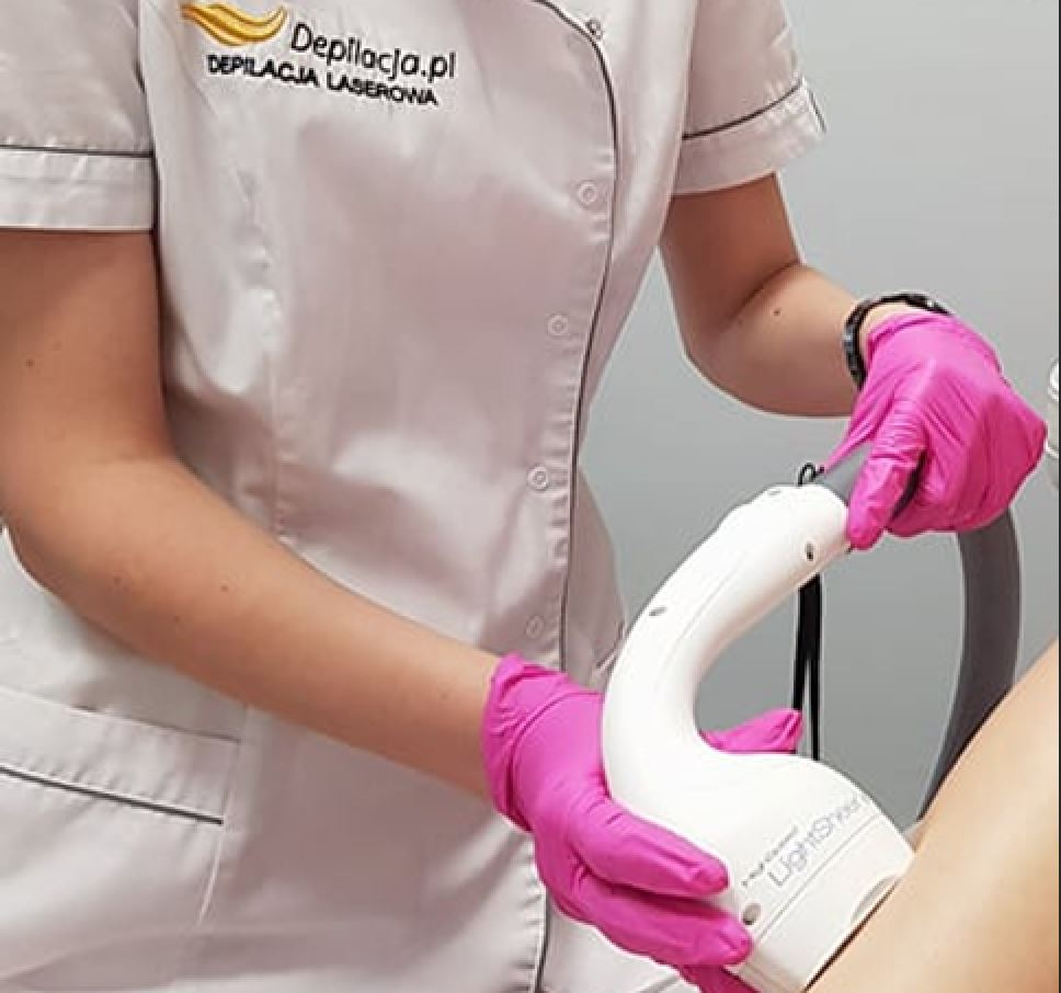 Laser hair removal using a large diode laser head